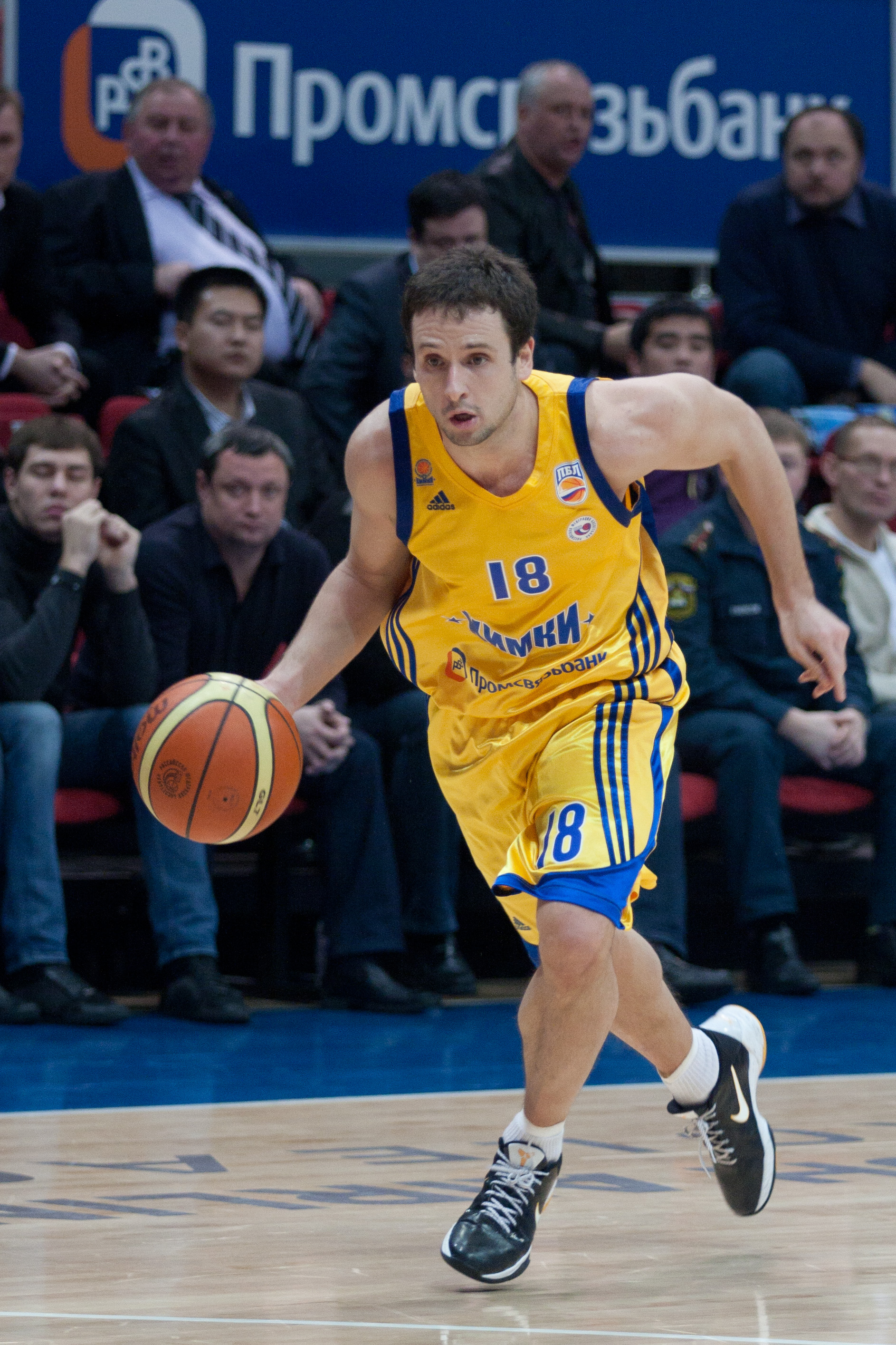 A BC Khimki guard Raul Lopez